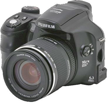 Fujifilm FinePix S6000fd/S6500fd camera